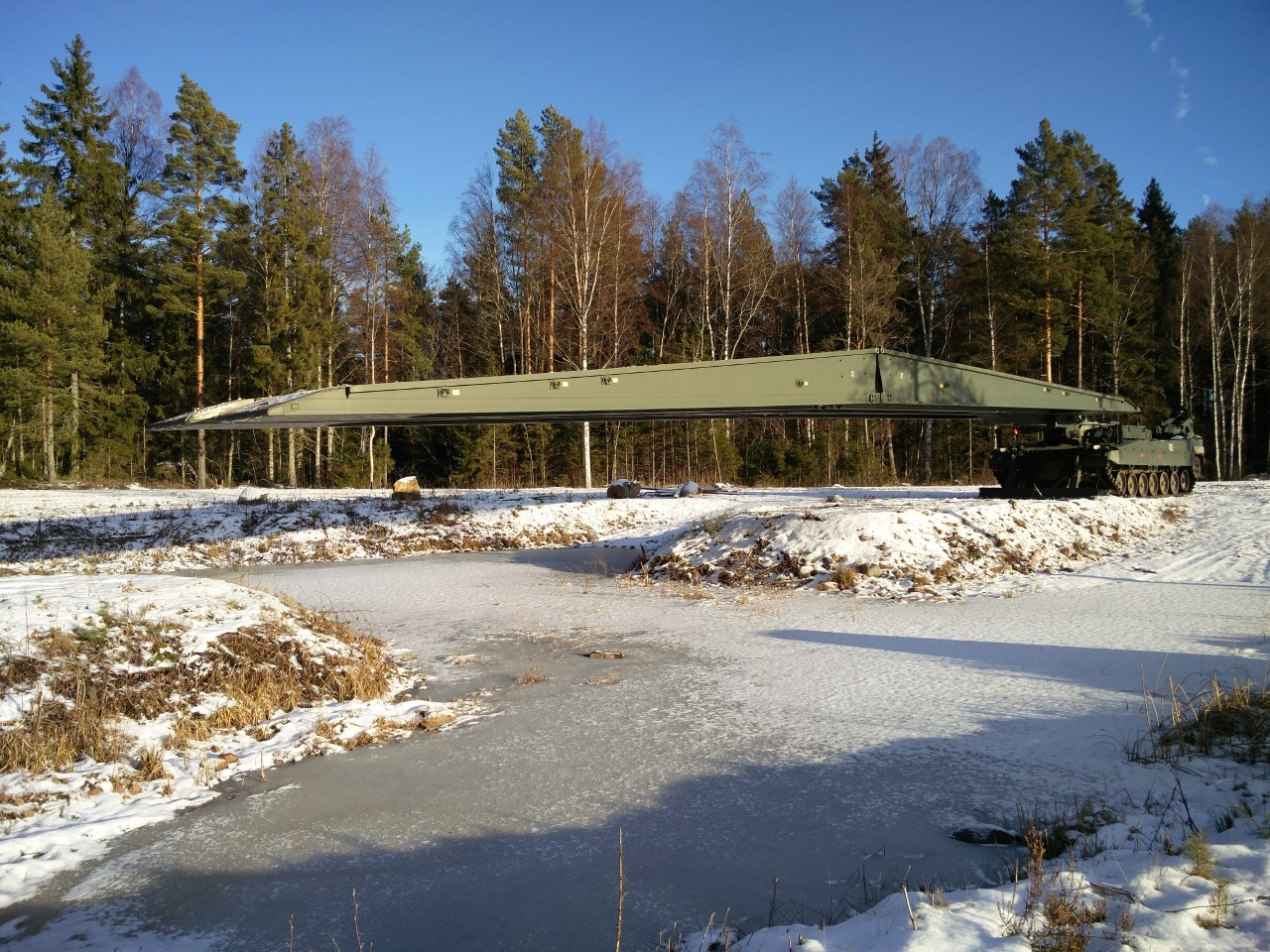 Brobandvagn 120 laying Leguan 26m bridge over watercourse.